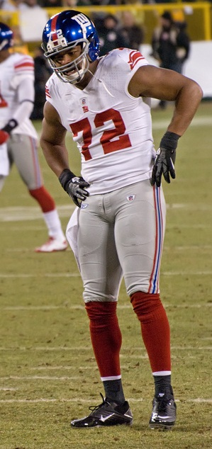 New York Giants vs. Green Bay Packers in the NFC Divisional Playoff Game at Lambeau Field on January 15, 2012. Photo by Mike Morbeck.